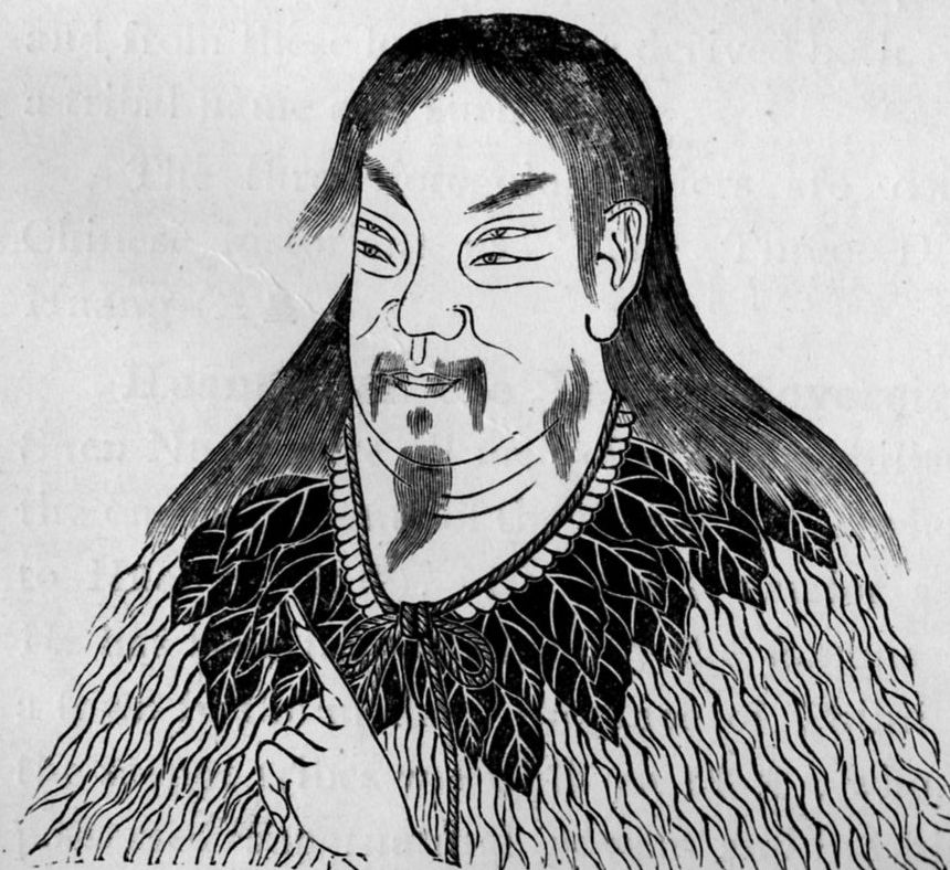 Cangjie, mythical inventor of Chinese writing system